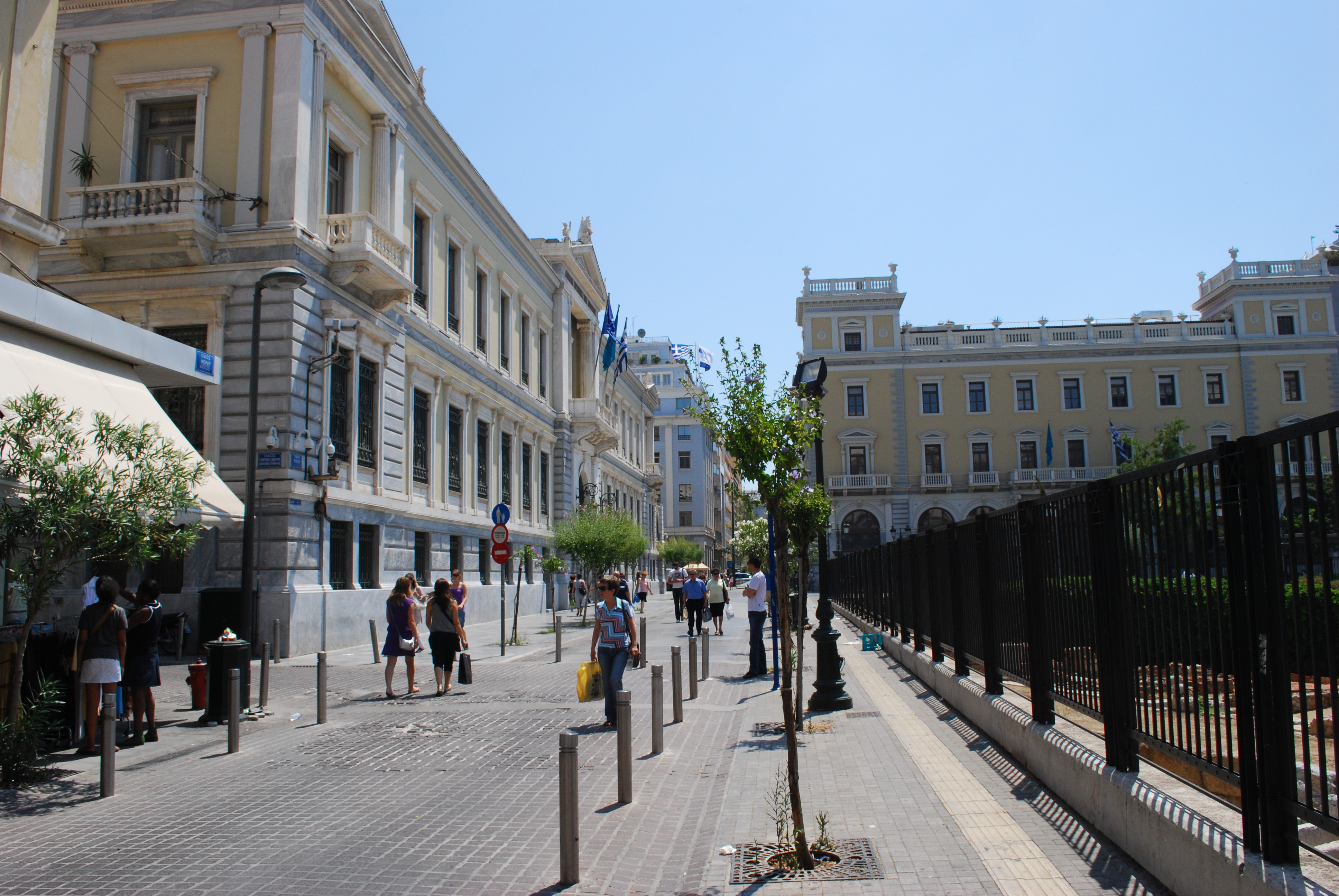 Odos Aioulou, National Bank of Greece / Ethniki Trapeza tis Ellados.